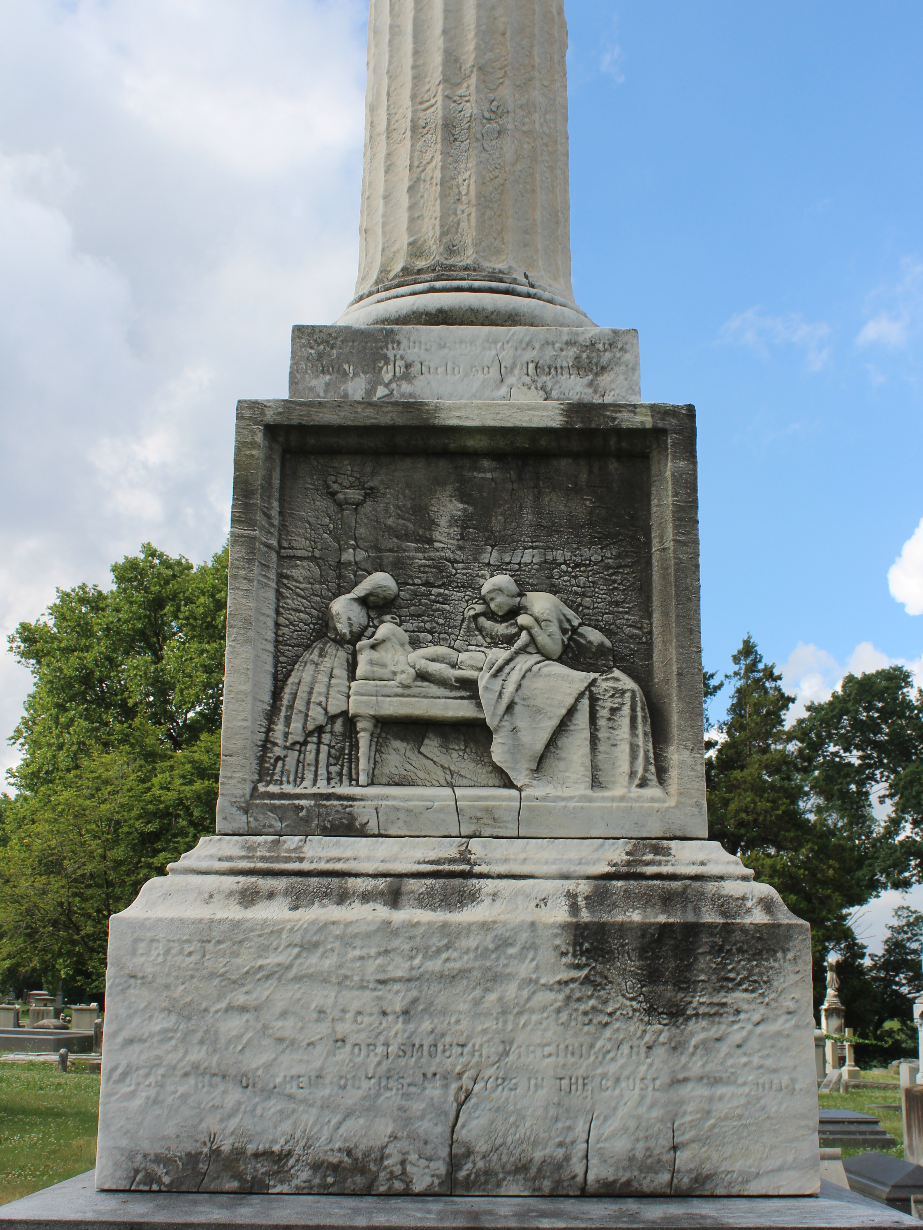 Yellow Fever Memorial in Laurel Hill Cemetery. Photo taken June 2020.